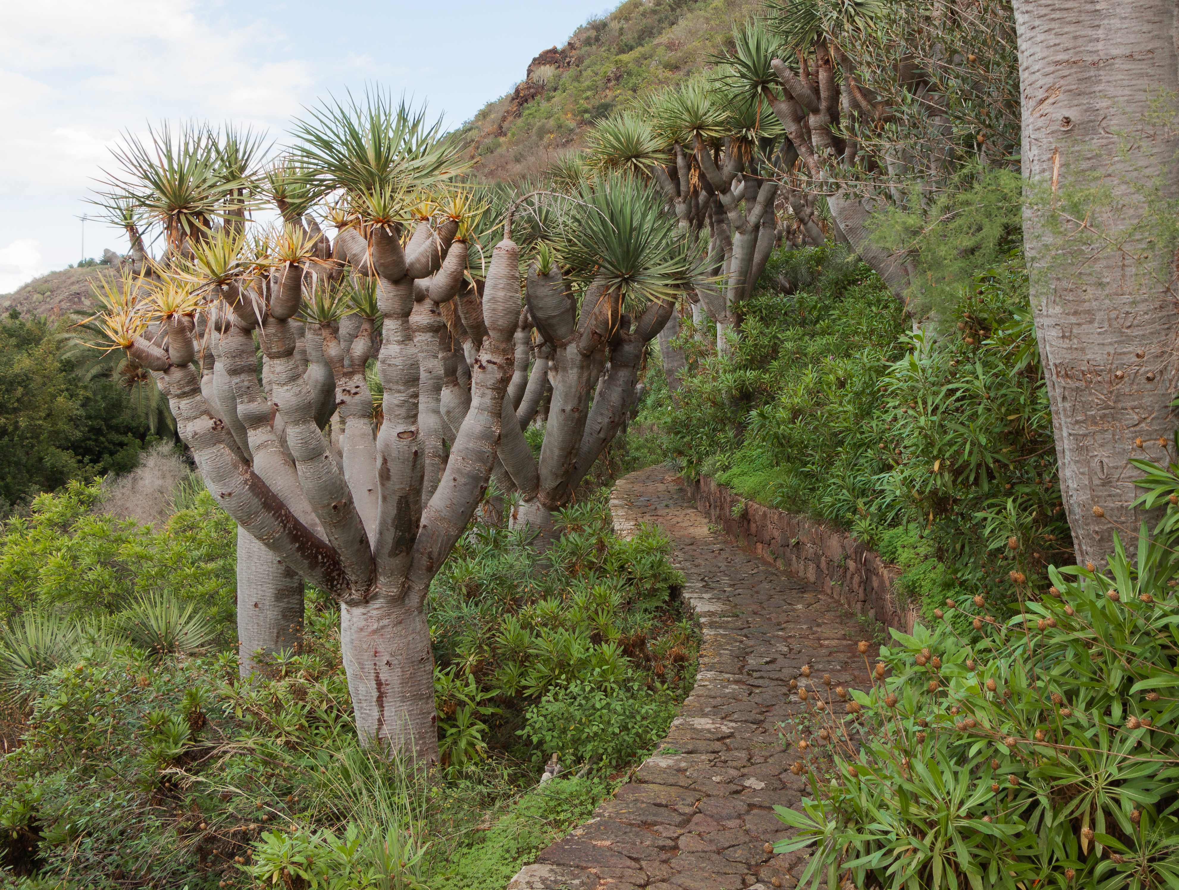 Dracaena draco (L.), Canary Islands dragon tree; Habitus; Jardín Botánico Canario Viera y Clavijo, Gran Canaria, Canary Islands, Spain.